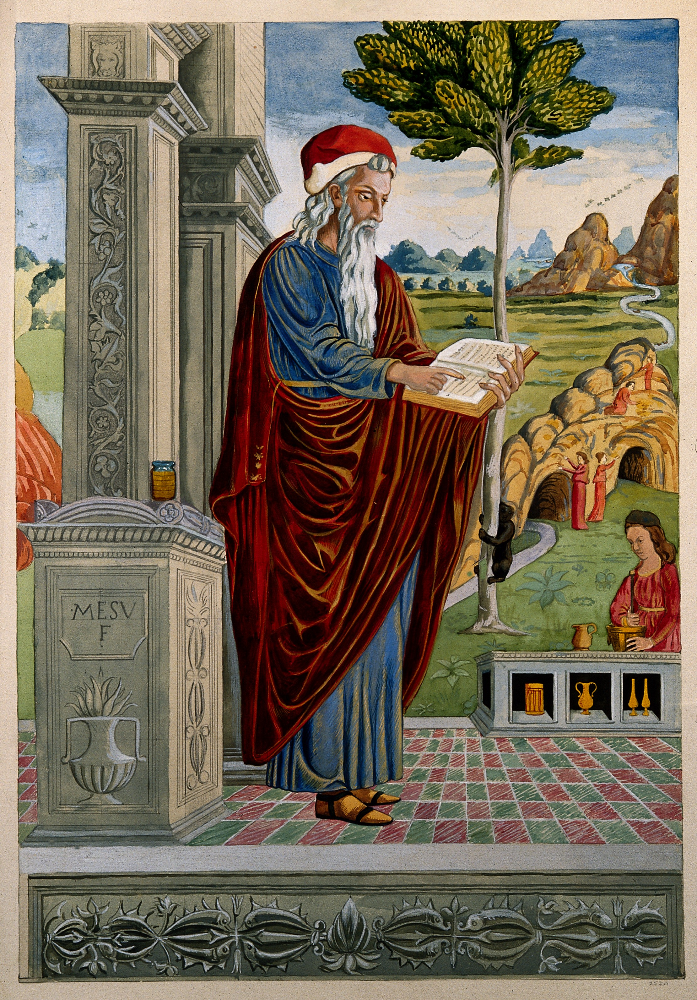 Mesue. Watercolour. Iconographic Collections Keywords: portrait prints